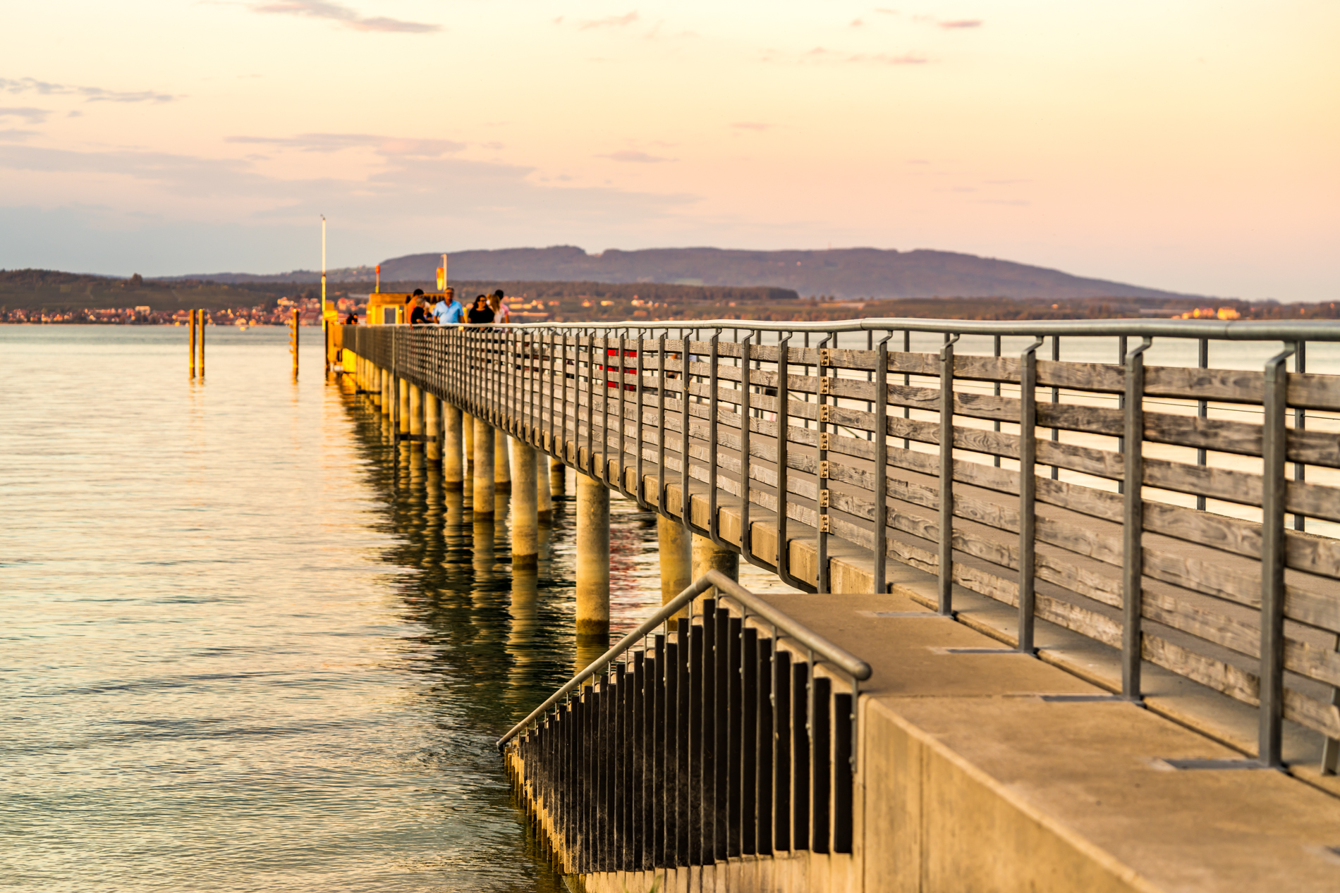 Jetty of Altnau